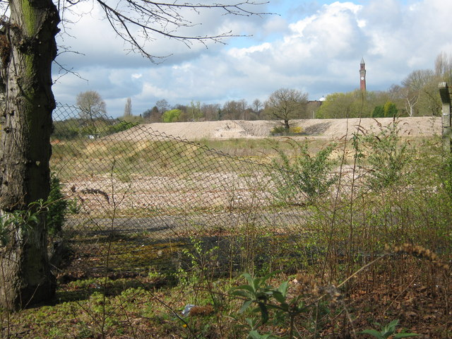 Remains of The BBC Televison Studios, Pebble Mill